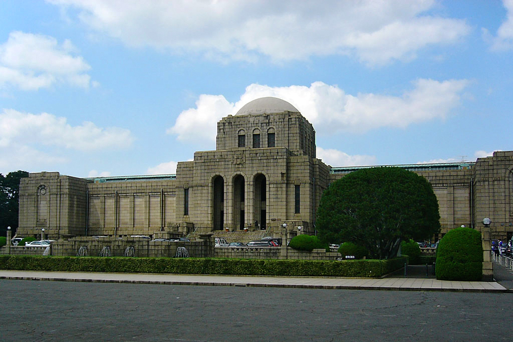 Seitoku Memorial Museum of Art, Shinjuku-ku, Tokyo, Japan